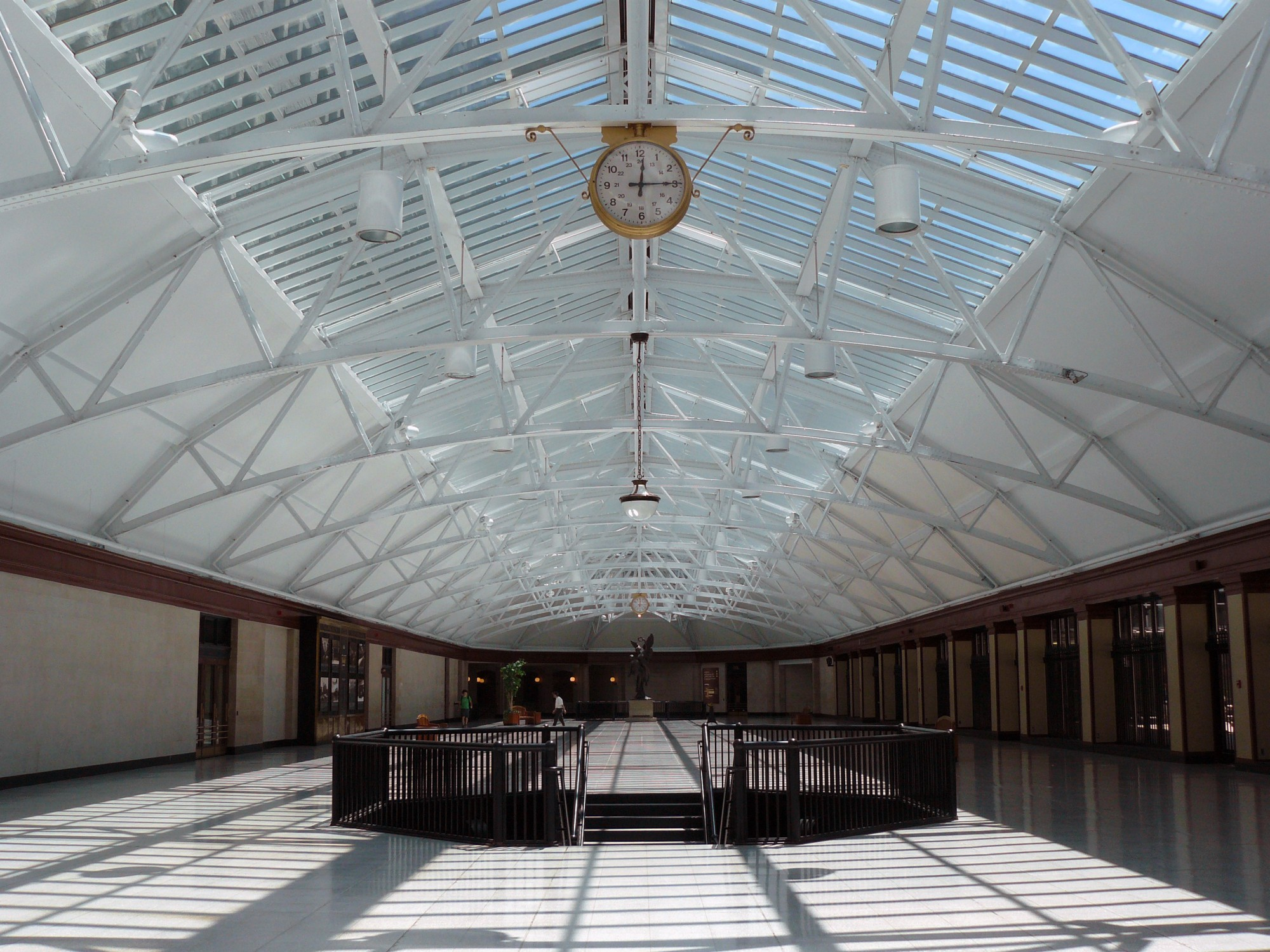 Inside the old Windsor train station in Montréal, Canada. Taken with a Panasonic DMC-FZ8, ISO100, 1/200sec, f4.5. Resampled